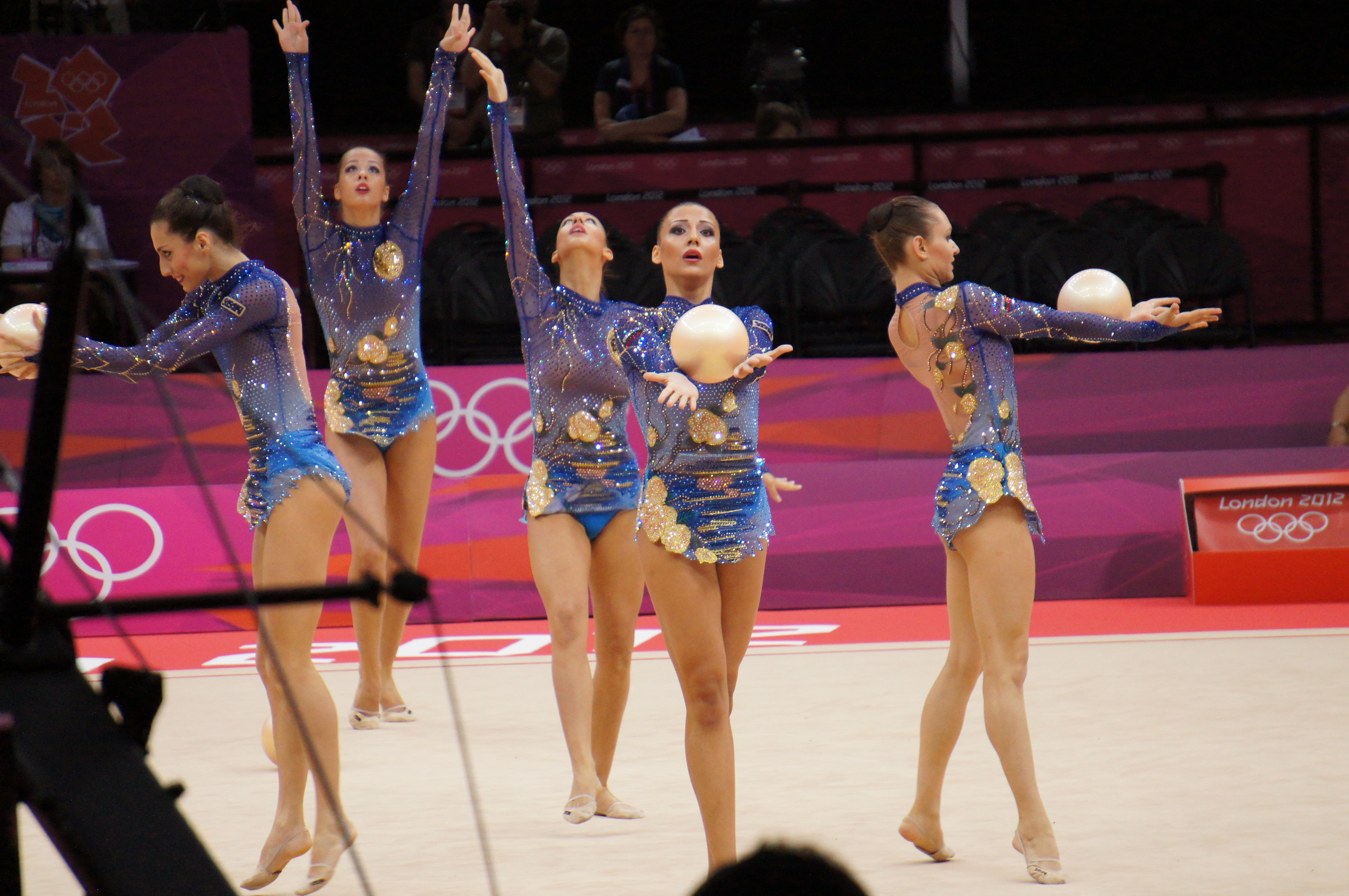 Rhythmic gymnastics at the 2012 Summer Olympics